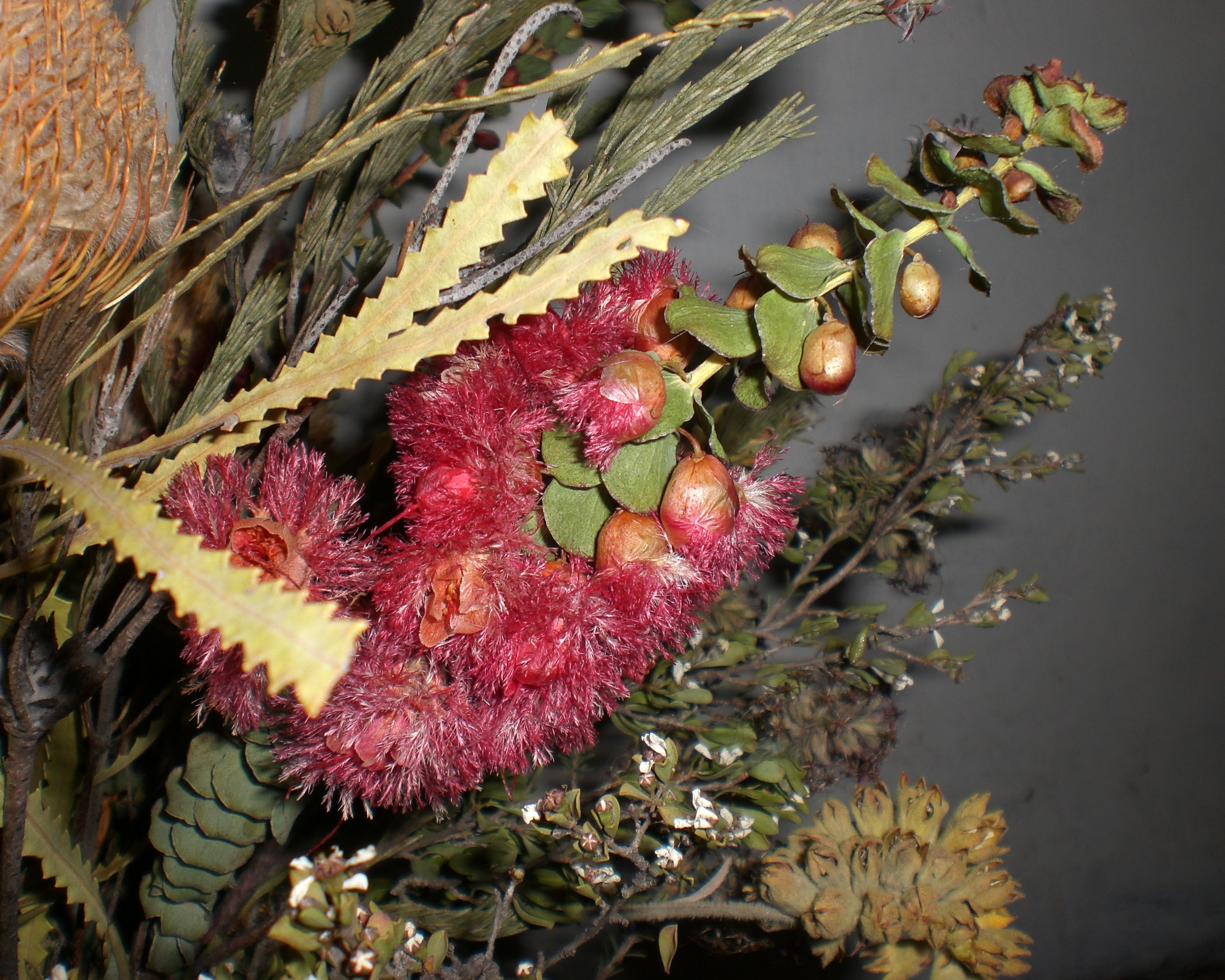 A specimen of Verticordia grandis in dried arrangement of flowers, collected near Eneabba, Western Australia.